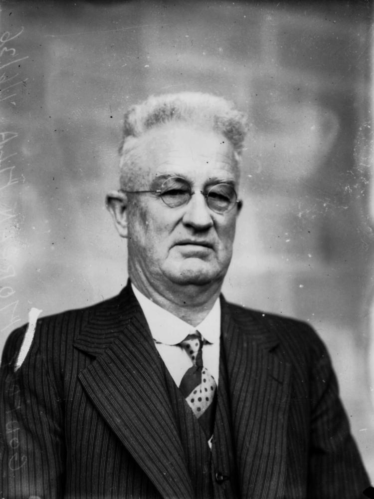 Godfrey Morgan M.L.A.. Grazier. b. 29 July 1875 Landsborough, Vic.;no s. Godfrey, journalist and newspaper proprietor, and May Elizabeth, nee Williamson; m. 7 Dec. 1896. Annie Jane Pace; (d. 1966) 4s. 2d. d. 29 Aug. 1957 Brisb. Crem. after State funeral. C. of E. MLA Murilla 2 Oct 1909 - 10 May 1935. Dalby 11 May. 1935 - 2 Apr. 1938. Sec. Railways 21 May. 1929 - 17 June 1932. Country Party. (Information taken from: D. B. Waterson, Biographical Register of the Queensland Parliament 1860-1929, 2001).